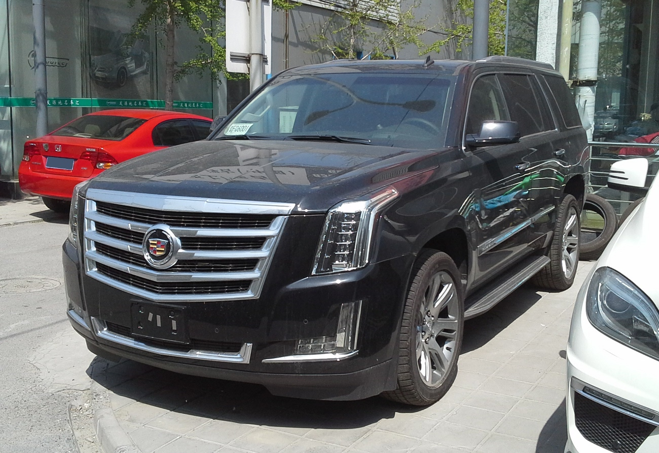 Cadillac Escalade IV photographed in Beijing, China.